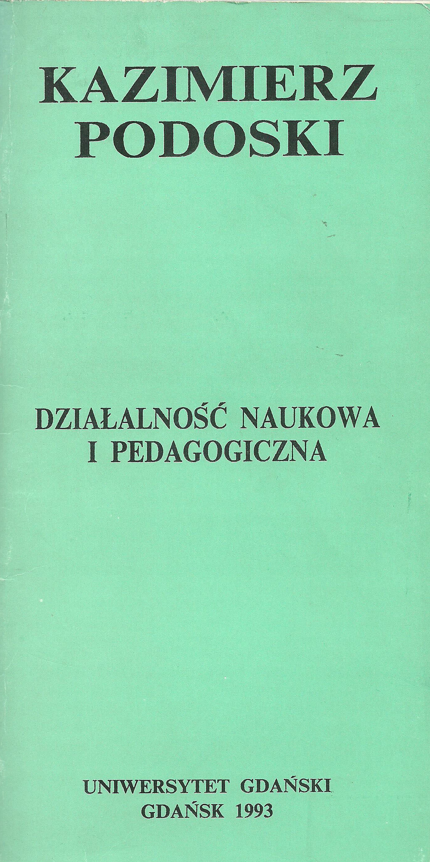 Cover of the book: Kazimierz Podoski - scientific and pedagogical activity. Author: Andrzej Chodubski. Publisher: University of Gdansk. Faculty of Social Sciences (1993)